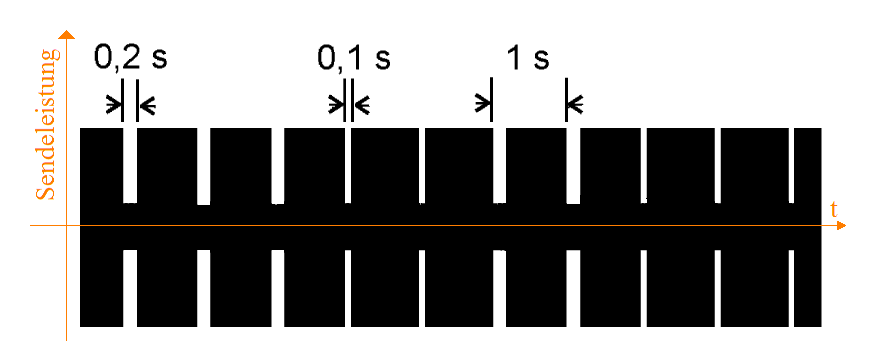 Amplitude modulated DCF77 signal as a function of time. Note that the figure shows a residual amplitude level of about 25%, but currently it is lowered to 15%.